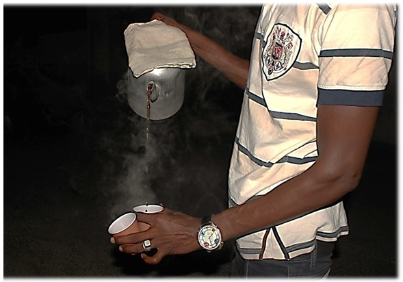 Adept pouring of steaming Café Touba